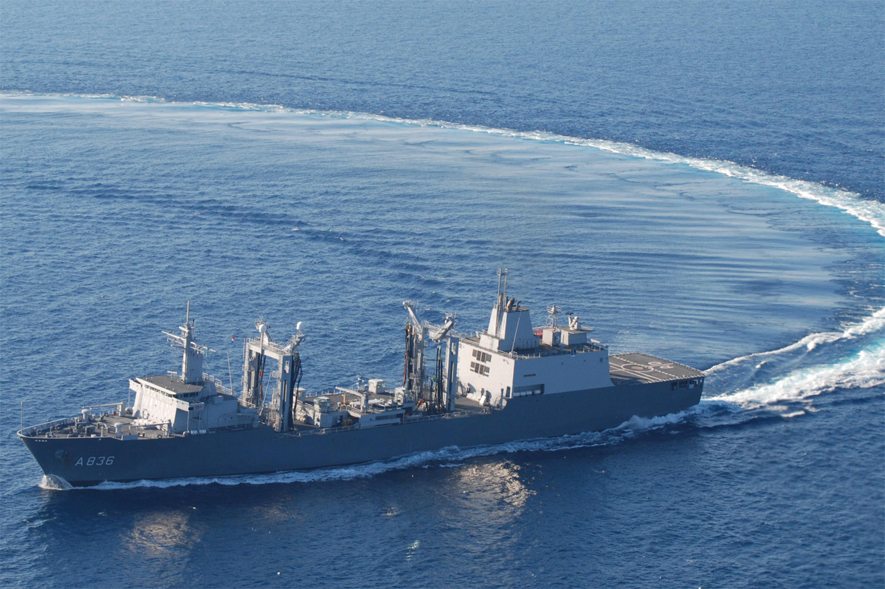 HNLMS Amsterdam (A836)